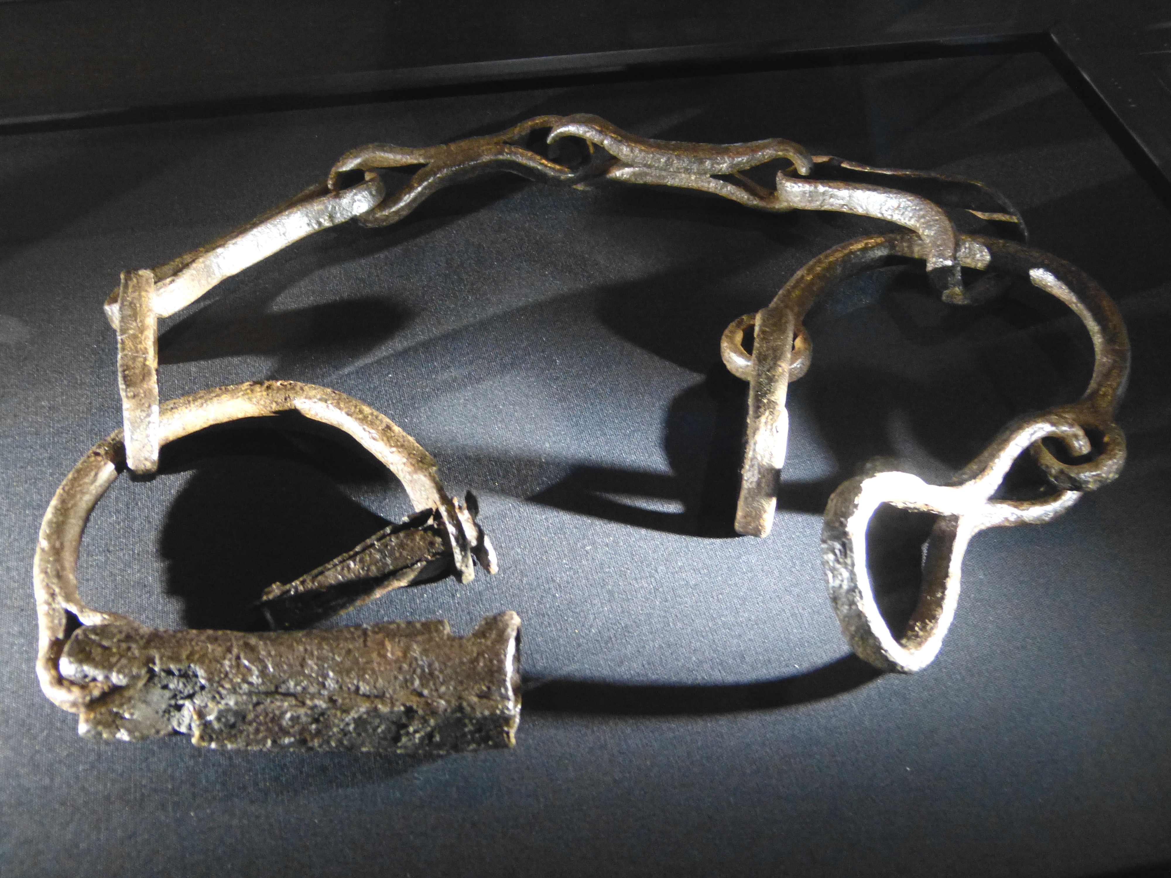 Rosenheim ( Upper Bavaria ). Lokschuppen exhibition centre - "Vikings!" exhibition ( 2016 ): Slave chain ( Viking age ) from Breest ( Germany ) - Archäologisches Landesmuseum Mecklenburg-Vorpommern.